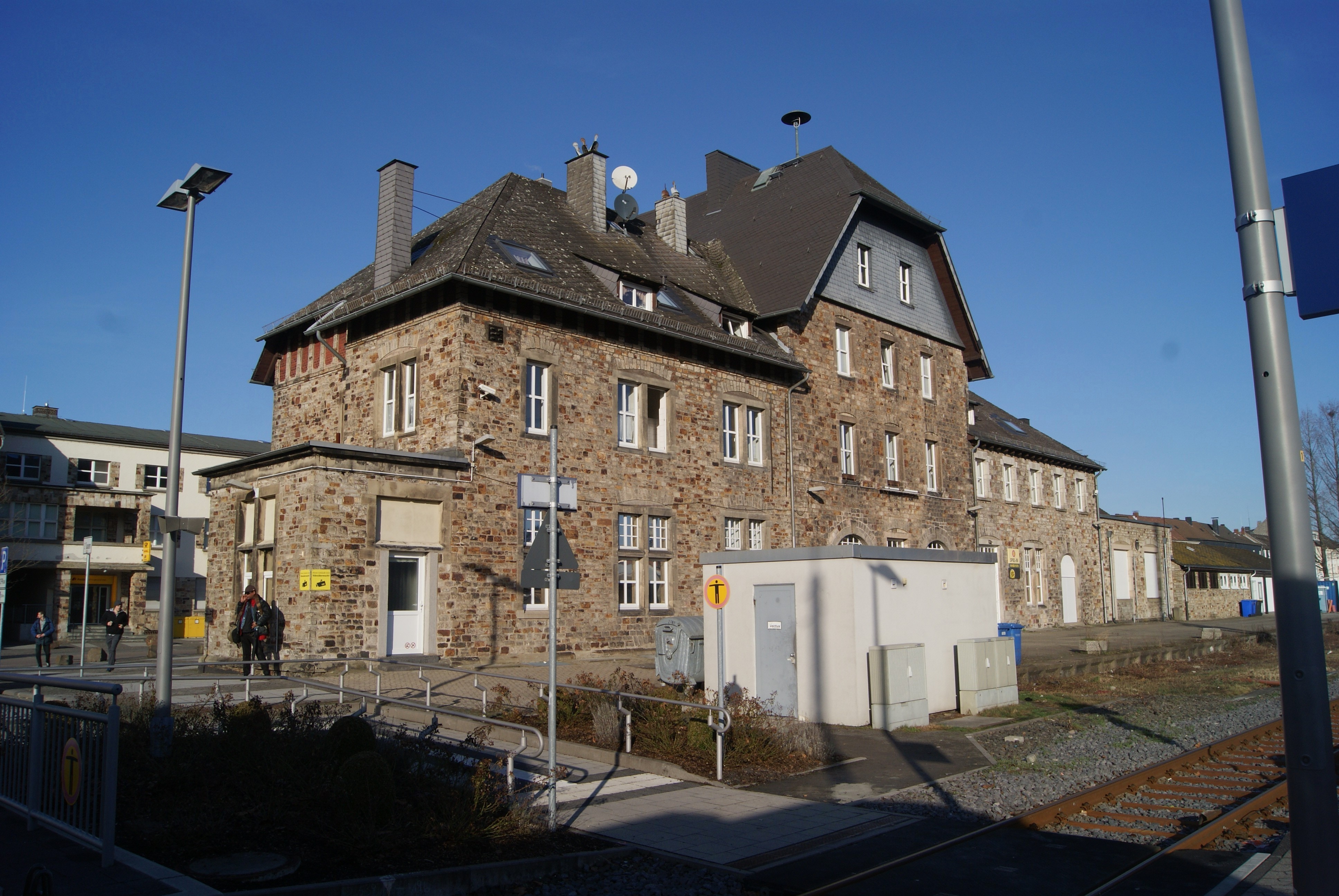 Train station building of Altenkirchen (Westerwald) train station